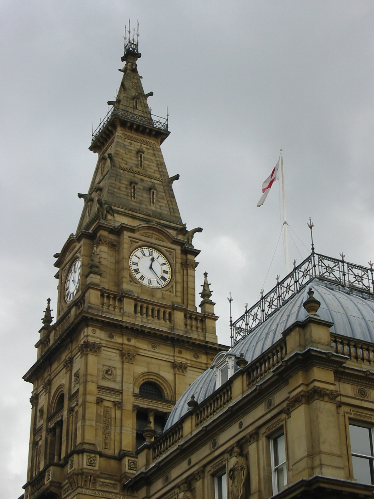 Clock tower of Liverpool Municipal Buildings from below